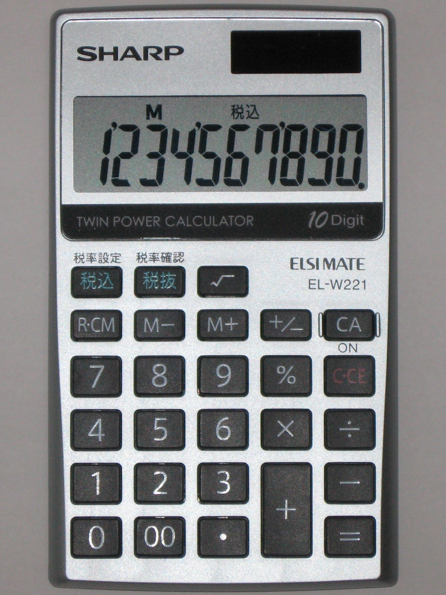 the calculator of SHARP (ELSIMATE EL-W221)